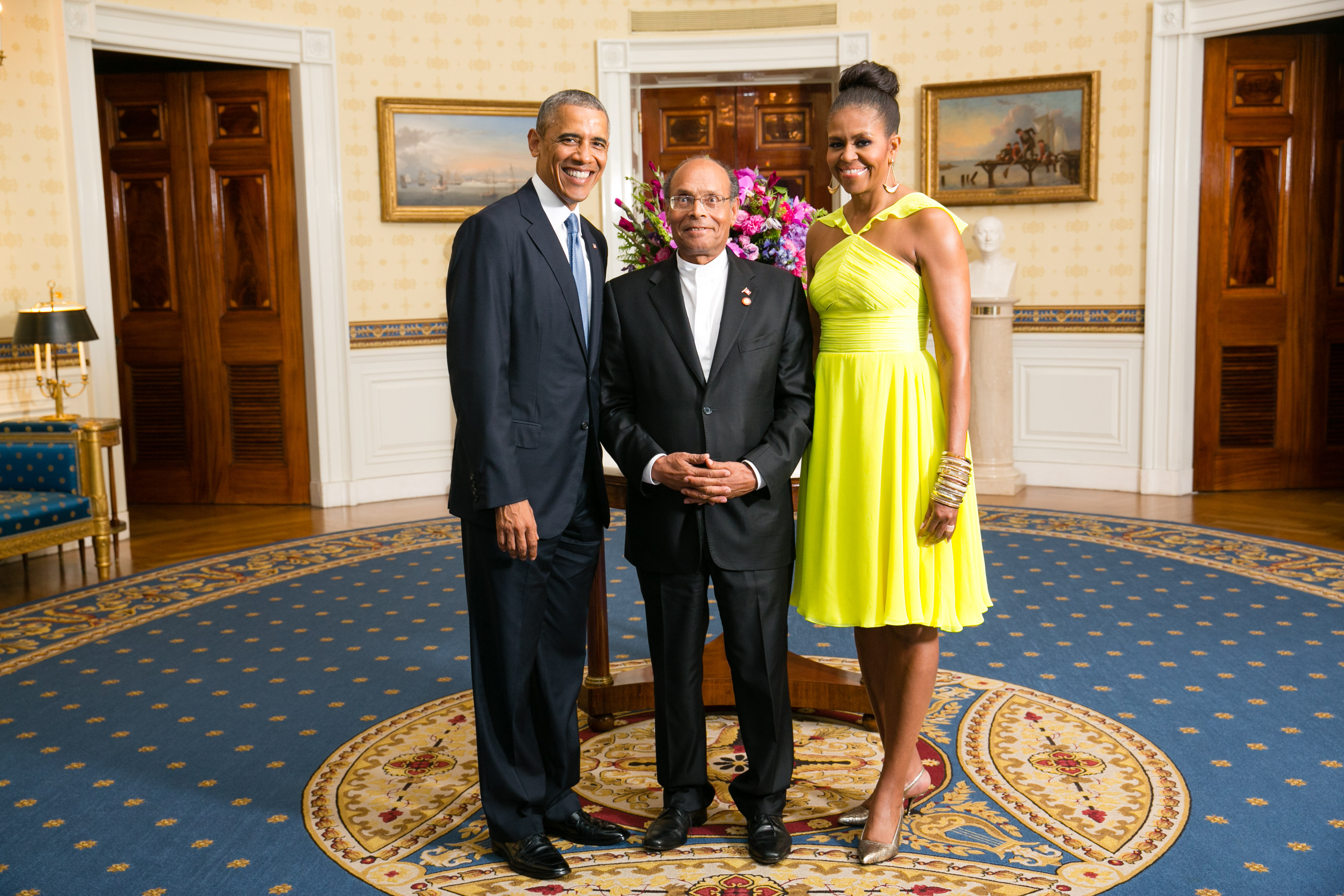 President Barack Obama and First Lady Michelle Obama greet His Excellency Mohamed Moncef Marzouki, President of the Republic of Tunisia, in the Blue Room during a U.S.-Africa Leaders Summit dinner at the White House, Aug. 5, 2014. [Official White House Photo by Amanda Lucidon] This official White House photograph is in the public domain from a copyright perspective, so while restrictions such as personality or privacy rights may apply, in general, manipulations are allowed.